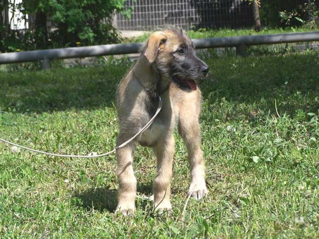 Irish wolfhound puppy named Irlandia, three and half month old, from the kennel FESTINA. The owner is Hanna Woźna - Gil, Poland